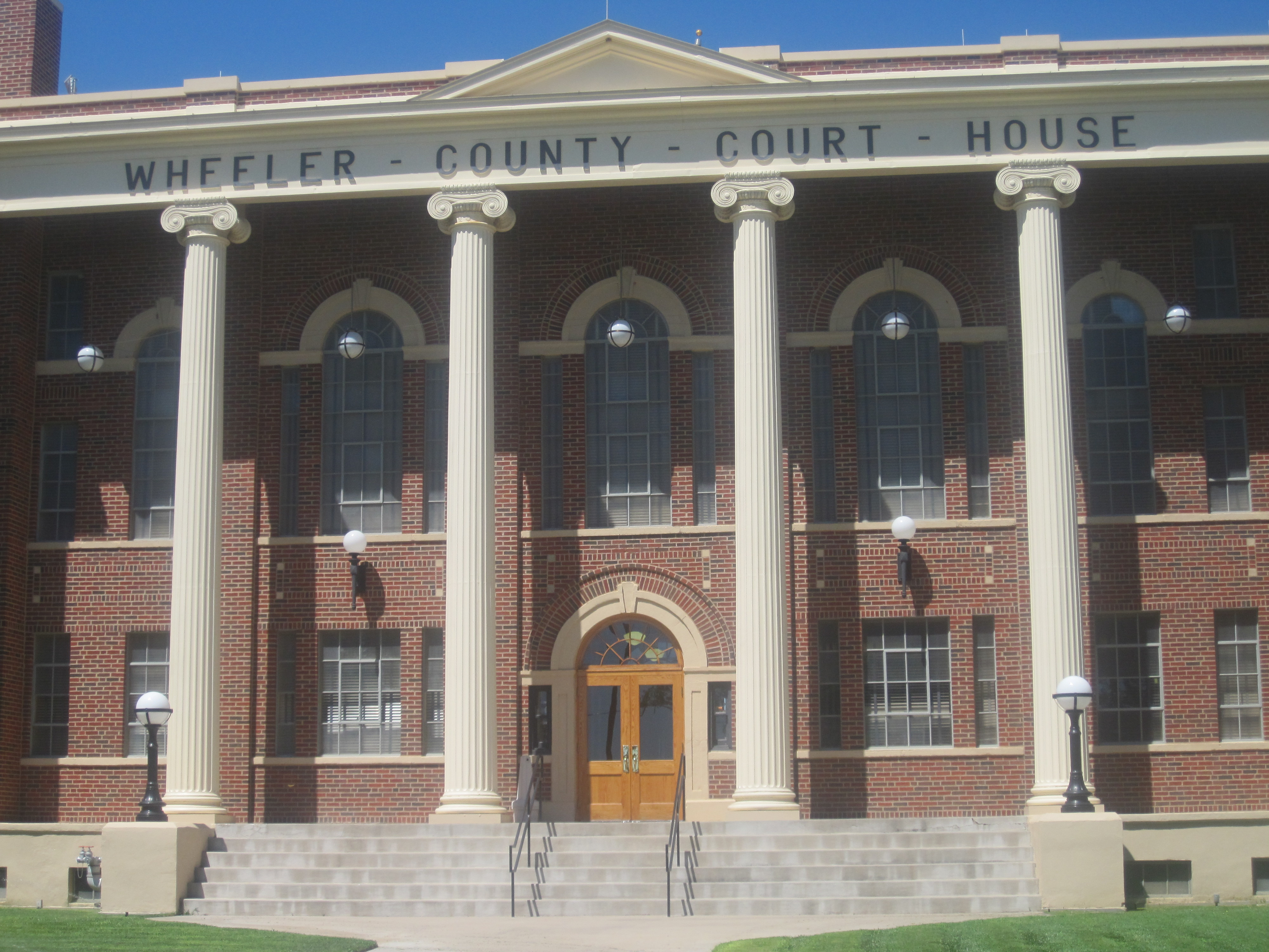 Wheeler County Courthouse. I took the photo with a Canon camera in Wheeler, TX.